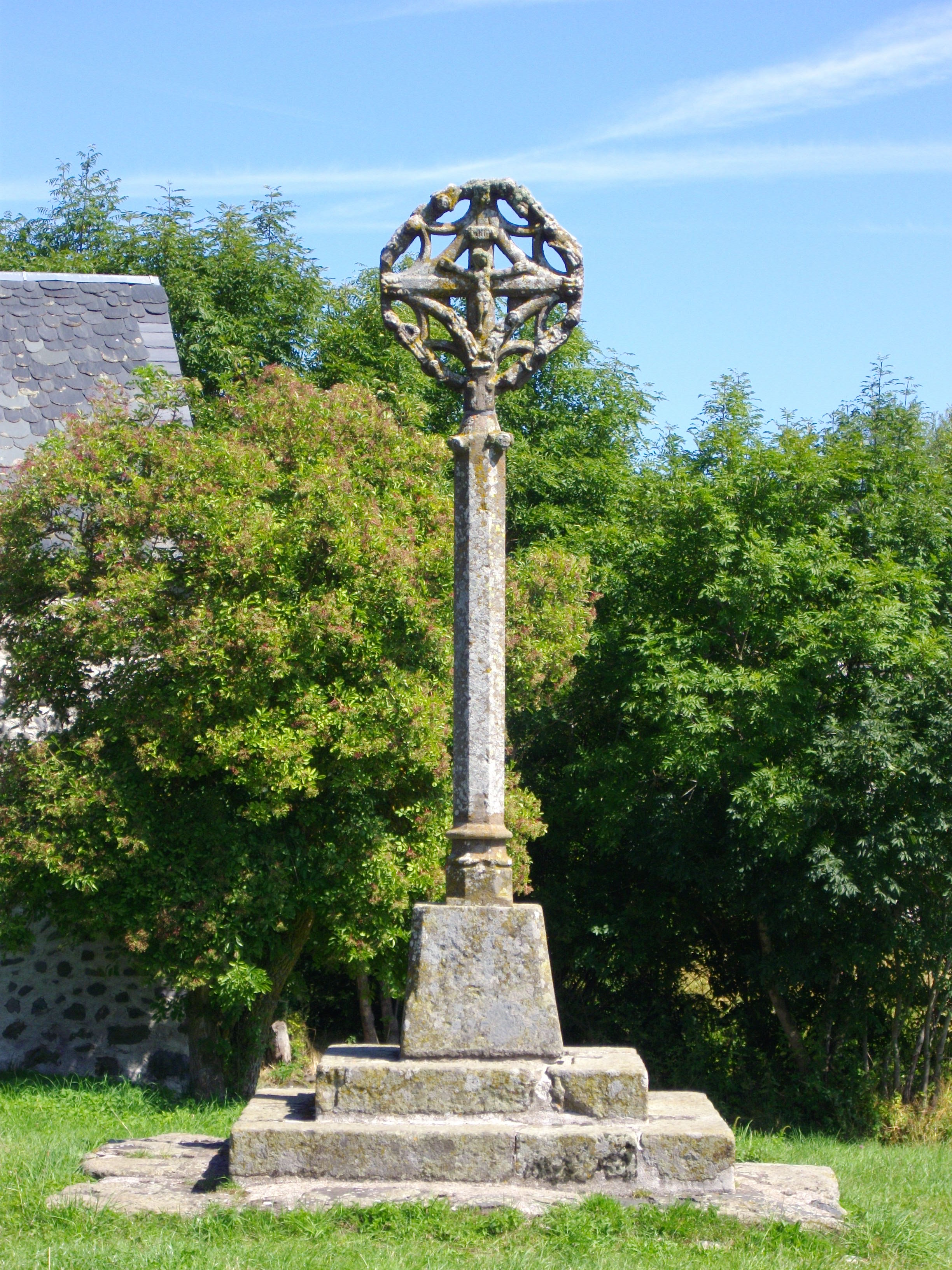 15th century granite cross named "Mons Cross" in Chalinargues (Cantal, France)